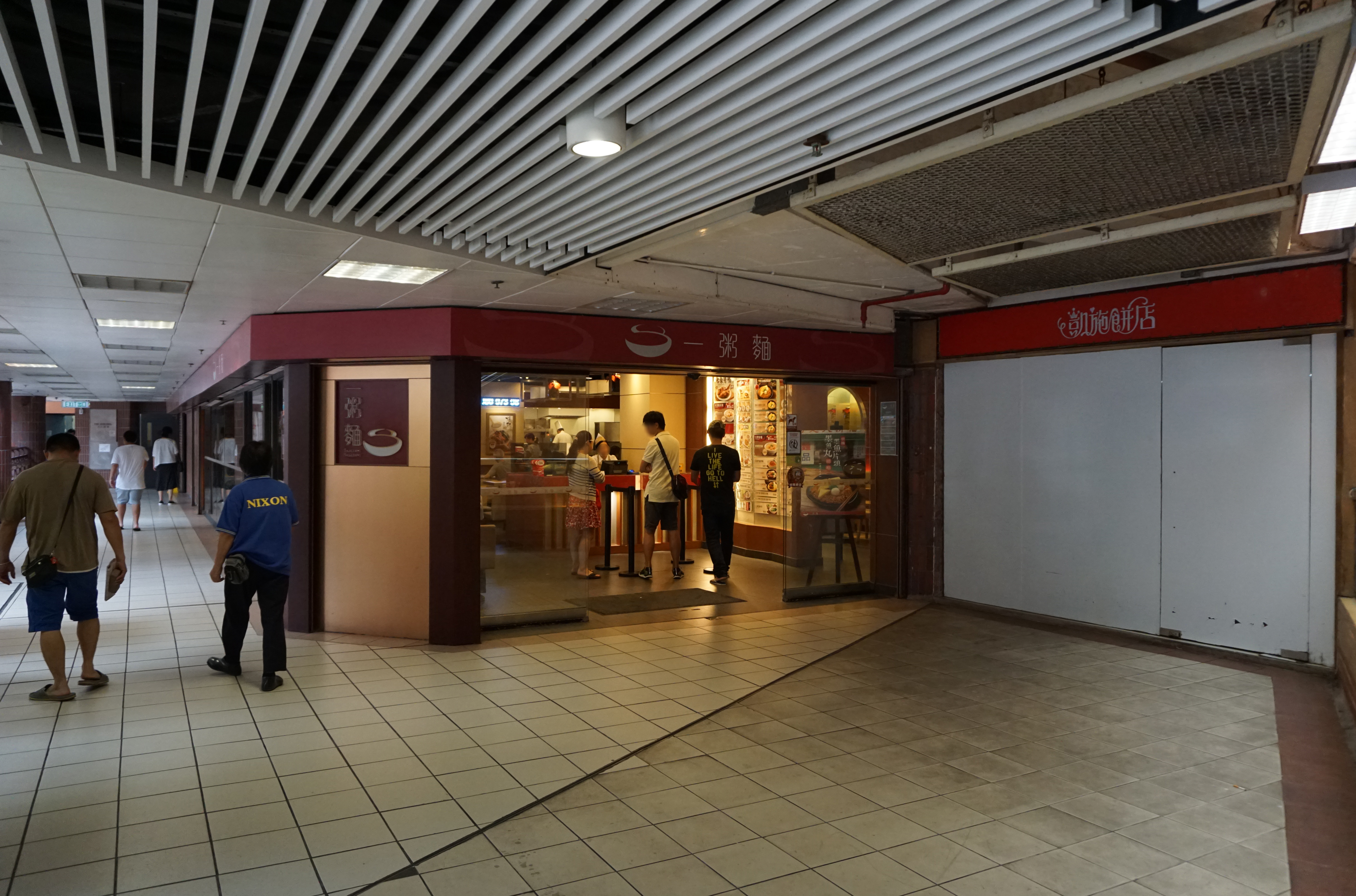 Lei Tung Commercial Centre in Ap Lei Chau, Hong Kong.